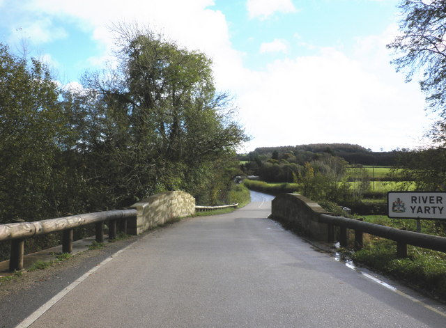 Bridge across the River Yarty, on the A30